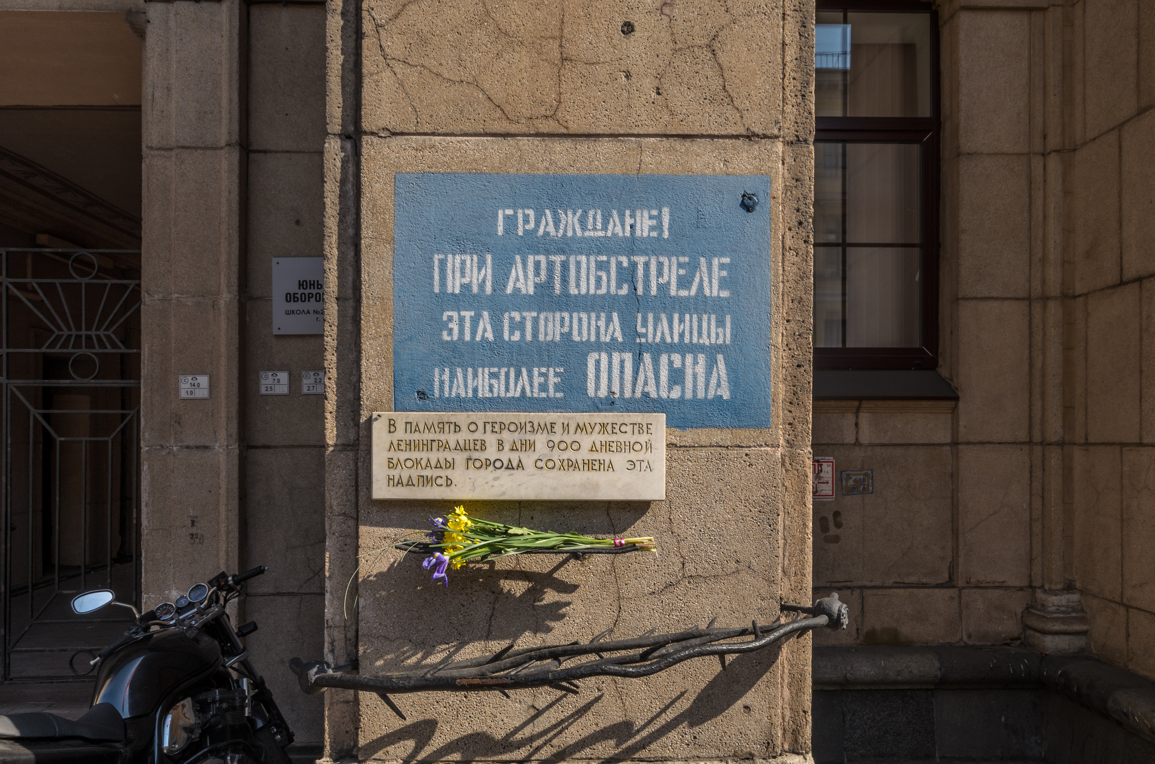 Memorial sign "Citizens! When shelling this side of the street is most dangerous" at Nevsky Avenue in Saint Petersburg